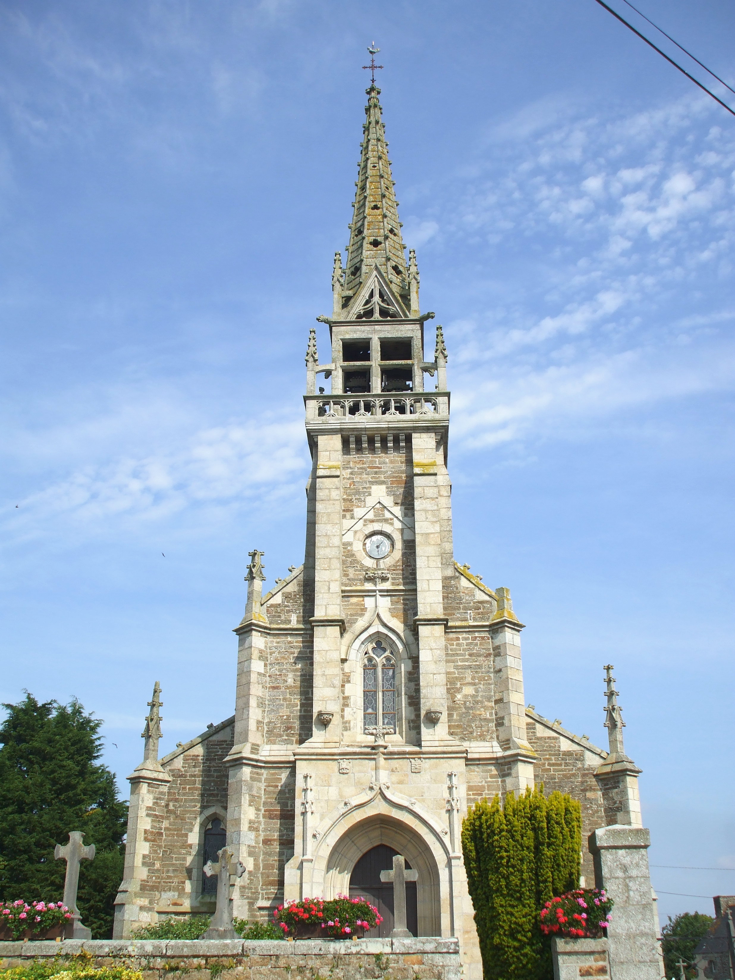 The church of St Columban in the village of Brélidy, Brittany, France.